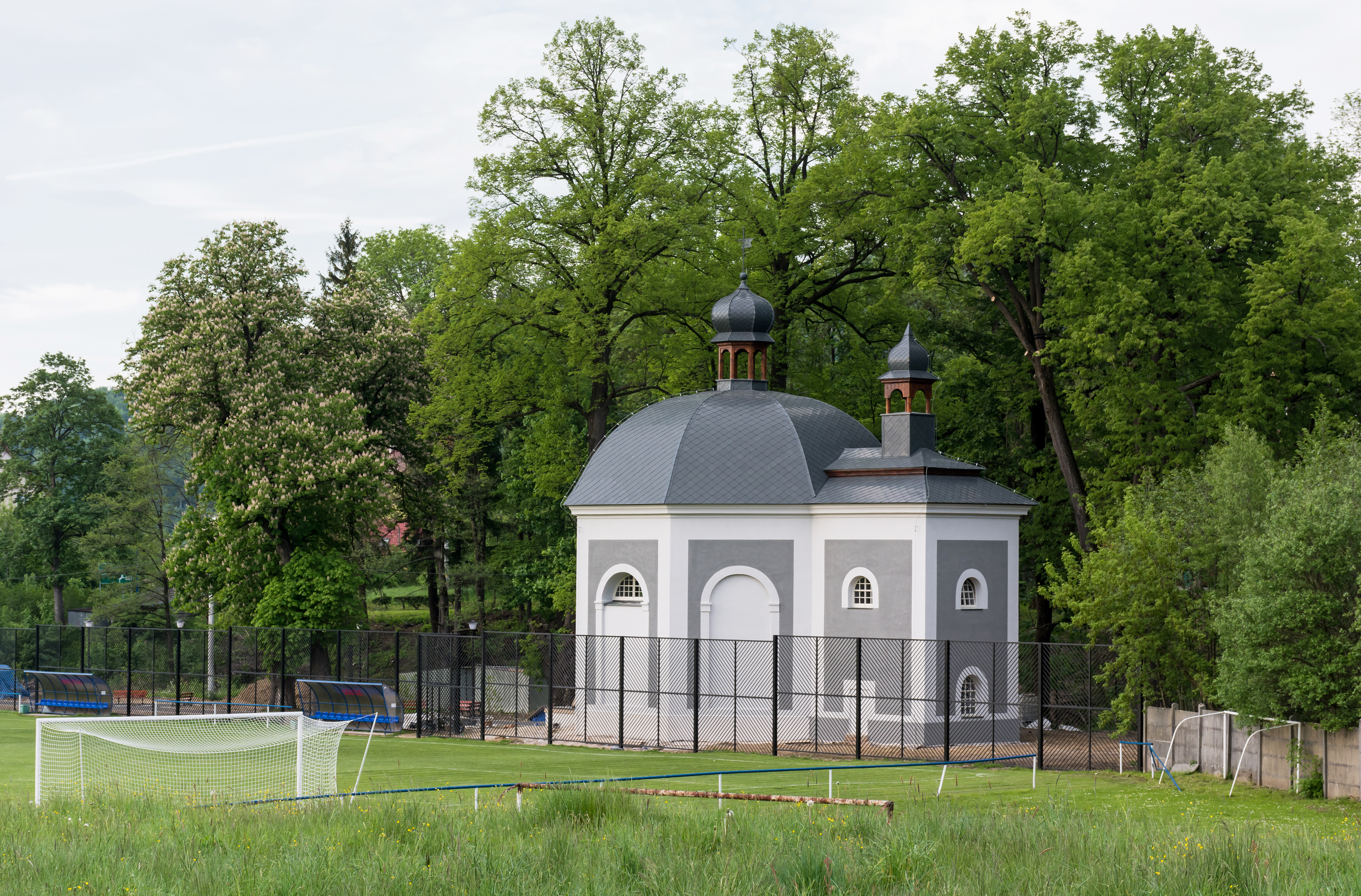 Saint Onuphrius chapel in Stronie Śląskie